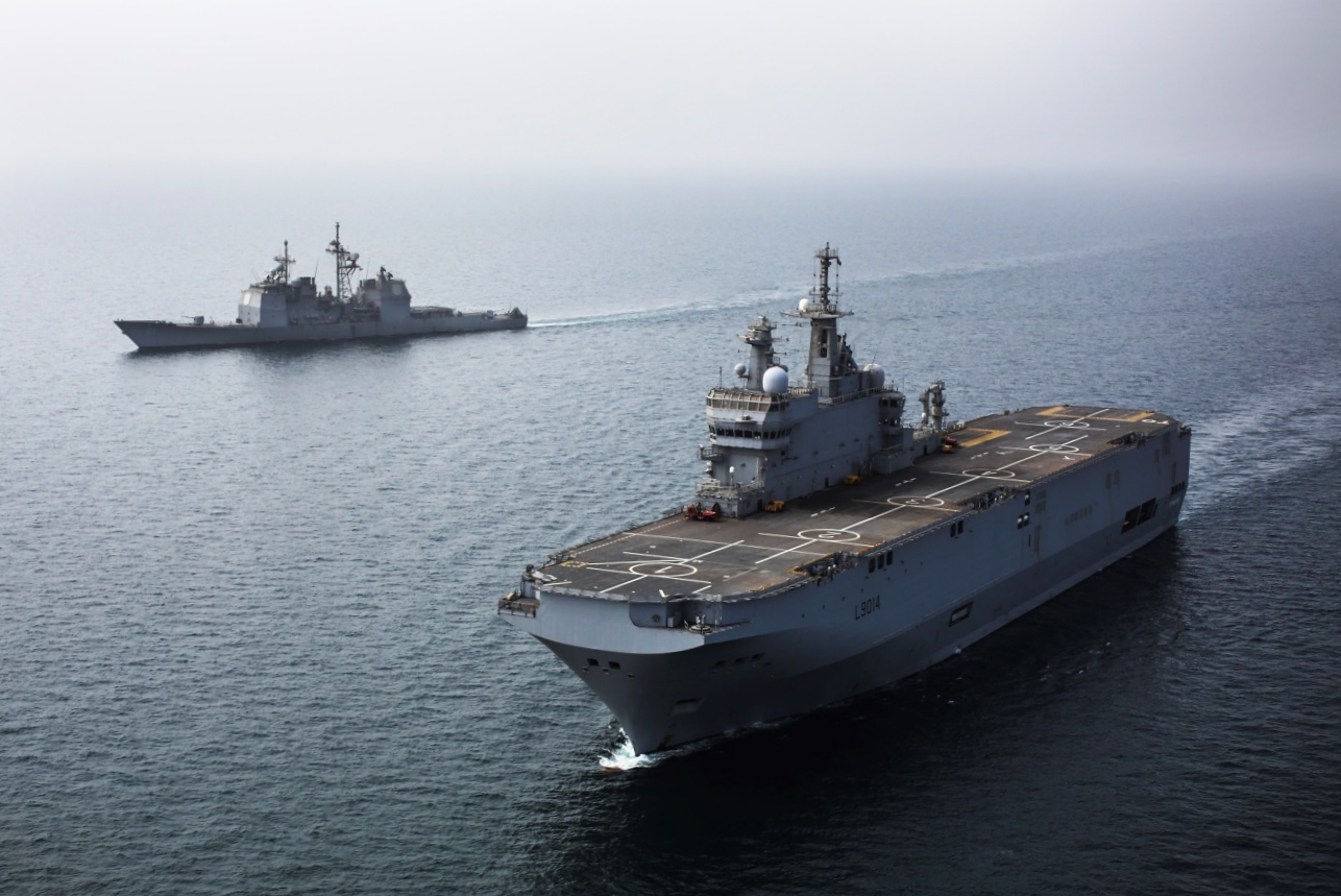 The French amphibious assault ship Tonnerre (L9014), right, and the U.S. Navy guided-missile cruiser USS Monterey (CG-61), left, underway in the Arabian Sea on 23 January 2018. Tonnerre, with embarked U.S. Marines and U.S. Navy sailors assigned to Naval Amphibious Force, Task Force 51, 5th Marine Expeditionary Brigade, was conducting maritime security operations within the U.S. 5th Fleet area of operations to ensure regional stability, freedom of navigation and the free flow of commerce.